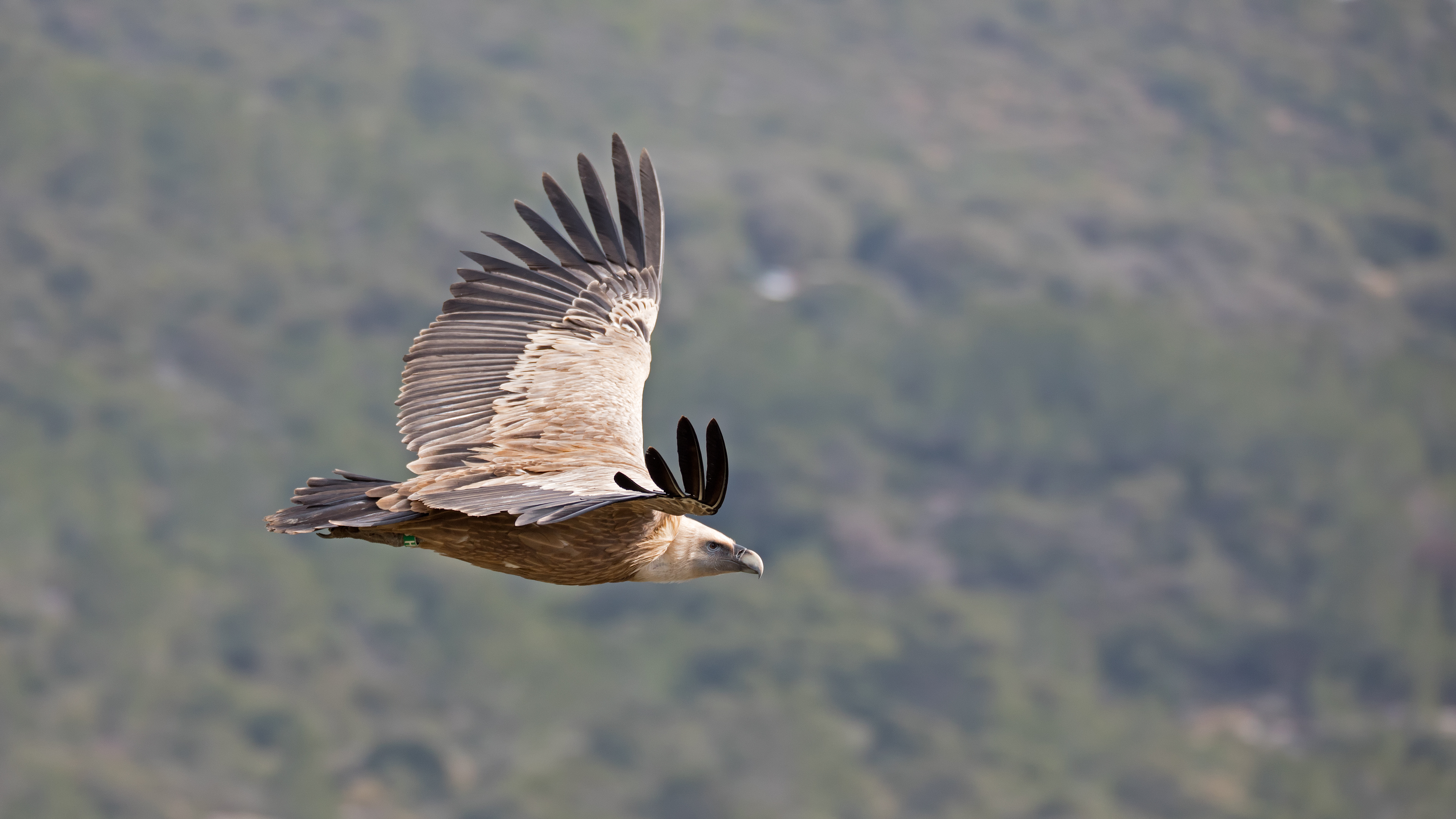 Griffon vulture in flight. The photo was taken at Carmel mount in Israel. There is a nature reserve on that mount, where they keep some captive vultures in cages (many Griffon vultures, some Egyptian vultures and to the best of my knowledge a pair of Lappet-faced vultures). Vultures in cages are used as a breeding kernel: as soon as these captive birds bring a new chick, the chick is taken away from them, treated and raised in a way it doesn't get imprinted to humans and is released to the wild. So this way they create a wild population of birds. However, vultures that are raised this way get a wing tag as well - so people from the ground could see who's flying and keep their records. So I assume that this specific one (without wing tags) is of European origin: it flew here for the winter and joined the local flock.